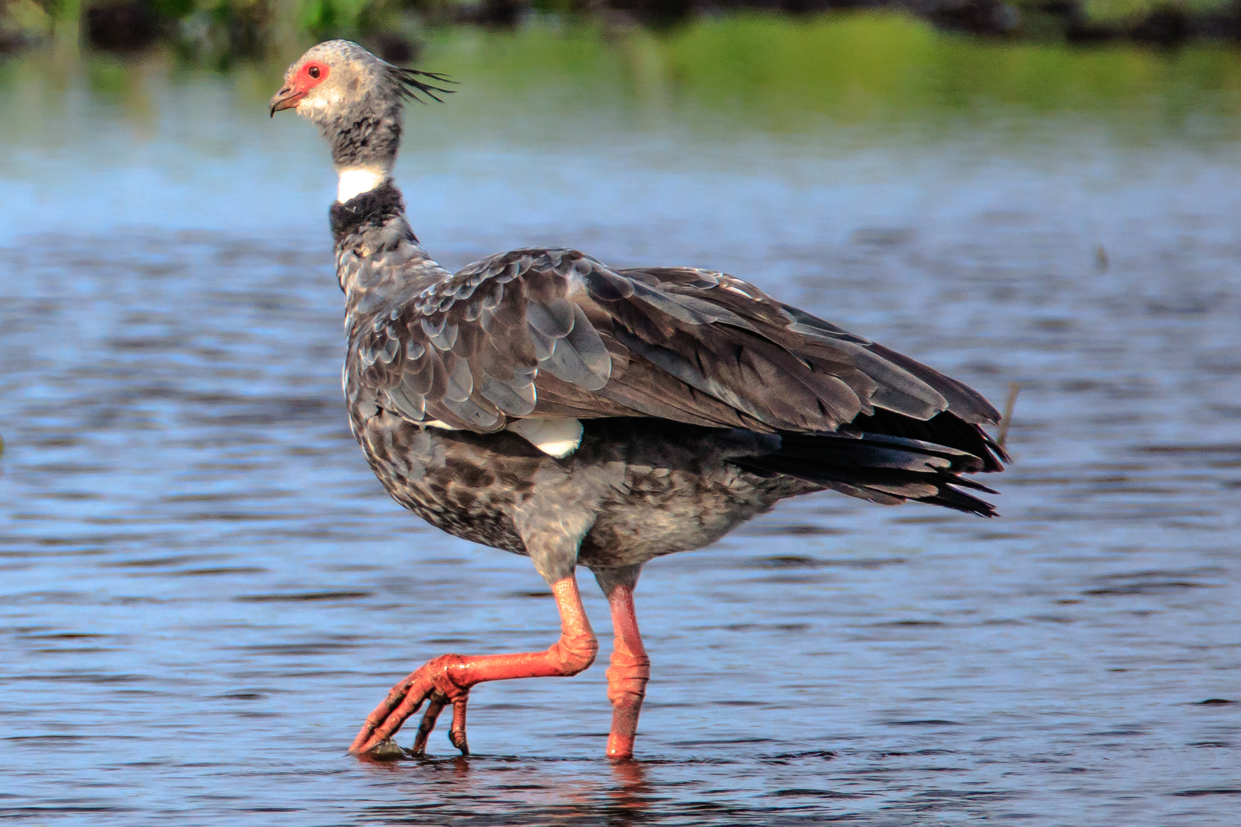 at Possa da Londra in the Brazilian Patanal (105m)...the weird looking Southern Screamer (Chauna torquata)...